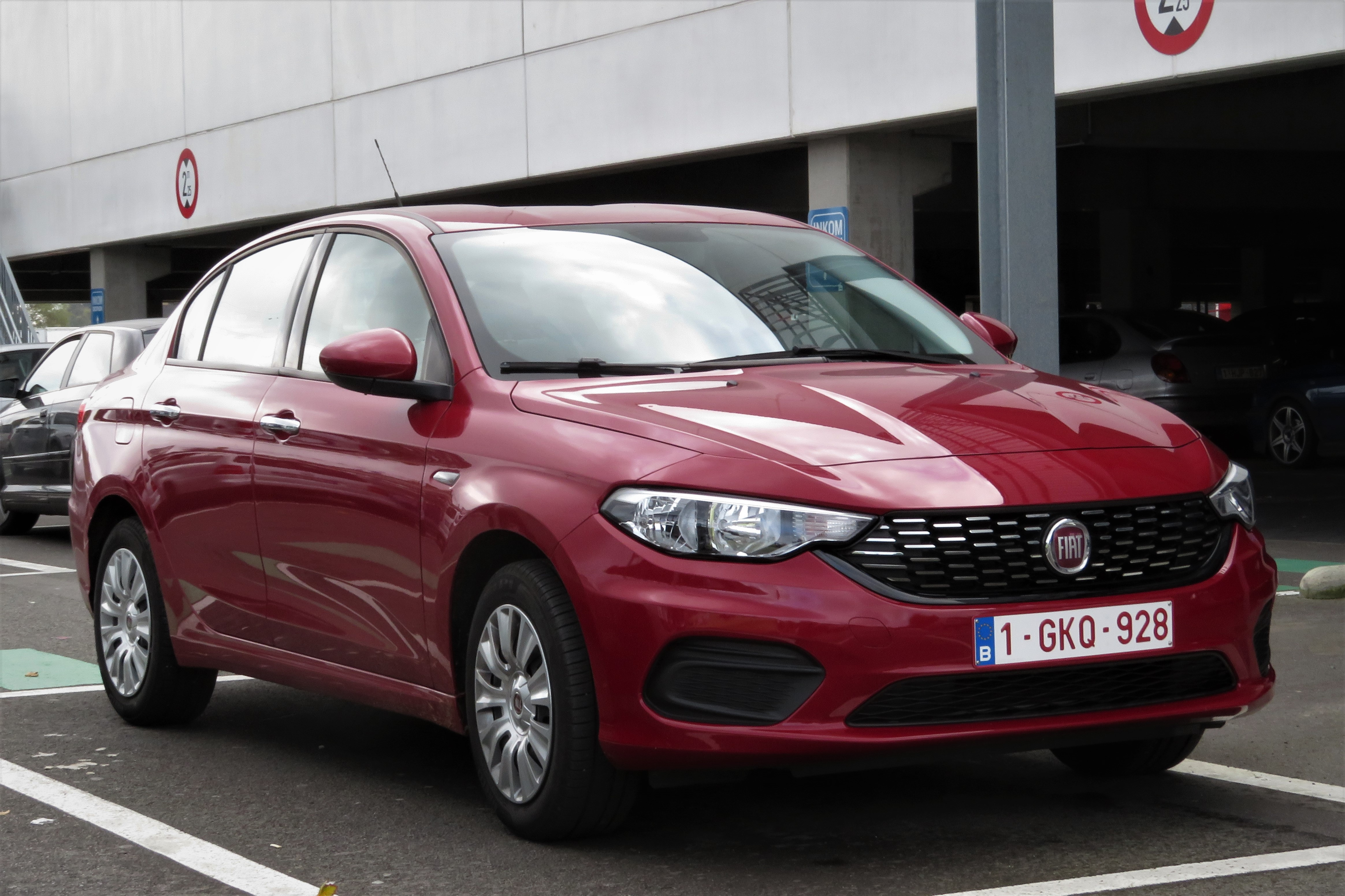 Fiat Tipo notchback (2017) in Hasselt